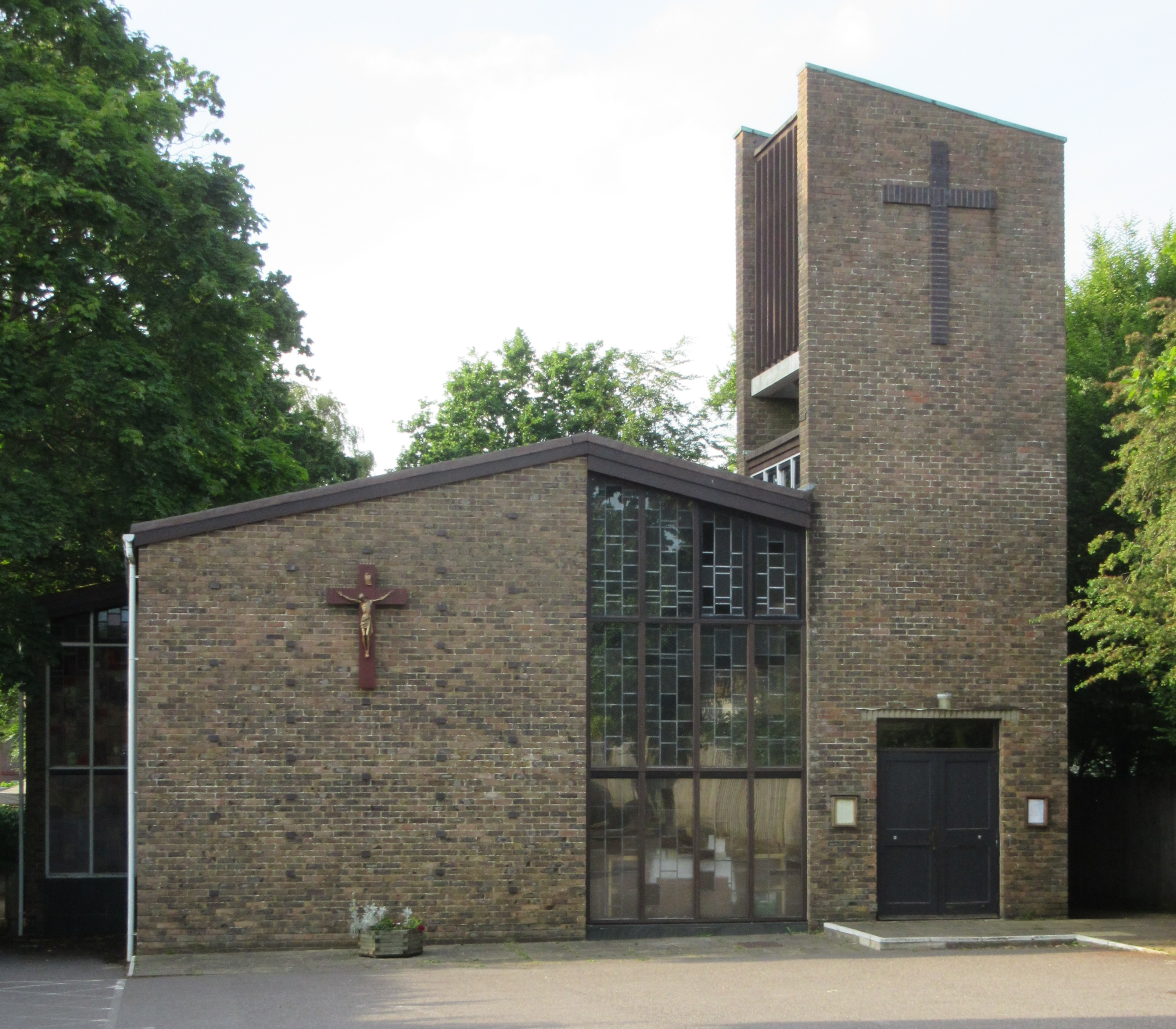 St Joseph's Church, Portsmouth Road, Milford, Borough of Waverley, Surrey, England. The Roman Catholic parish church of Milford.